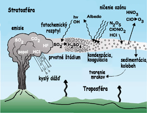 zdroj: anglická wiki: w:Image:Volcanic injection.jpg, pôvodne (figure modified from Richard Turco in American Geophysical Union Special Report: Volcanism and Climate Change, May 1992) Autor:United States Geological Survey, preklad Redaktor:Stefi